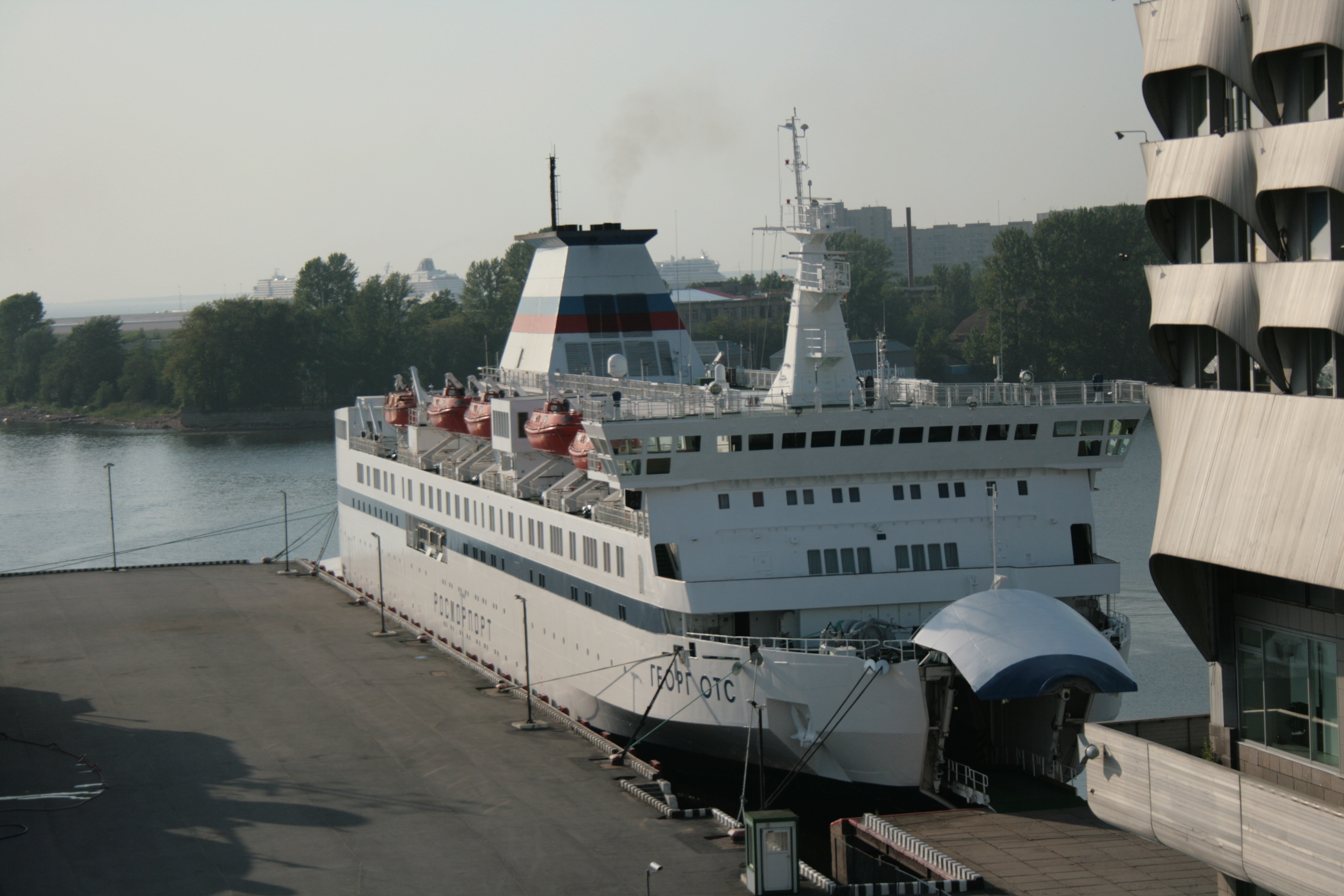 Ferry Georg Ots at Sea Terminal in Saint Petersburg